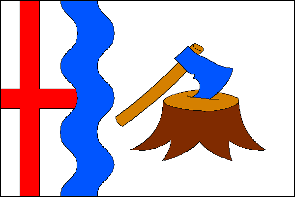 Municipal flag of Oseček , District Nymburk, Czech republic